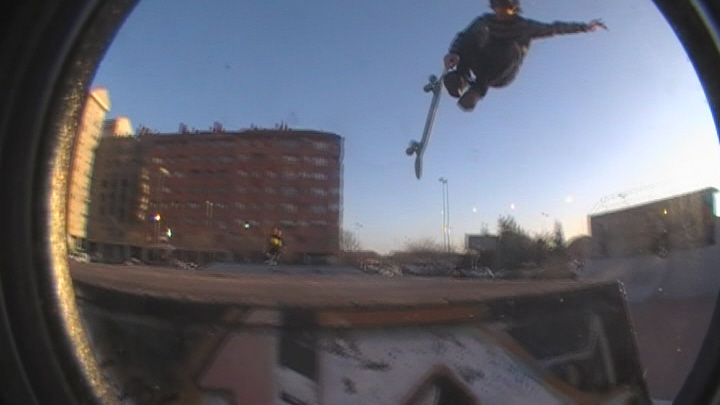 skateboard trick tip